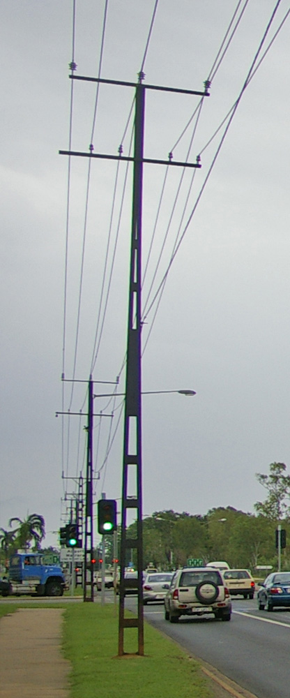 Steel Utility pole (Also known as a Stobie pole) in Darwin, Northern Territory.